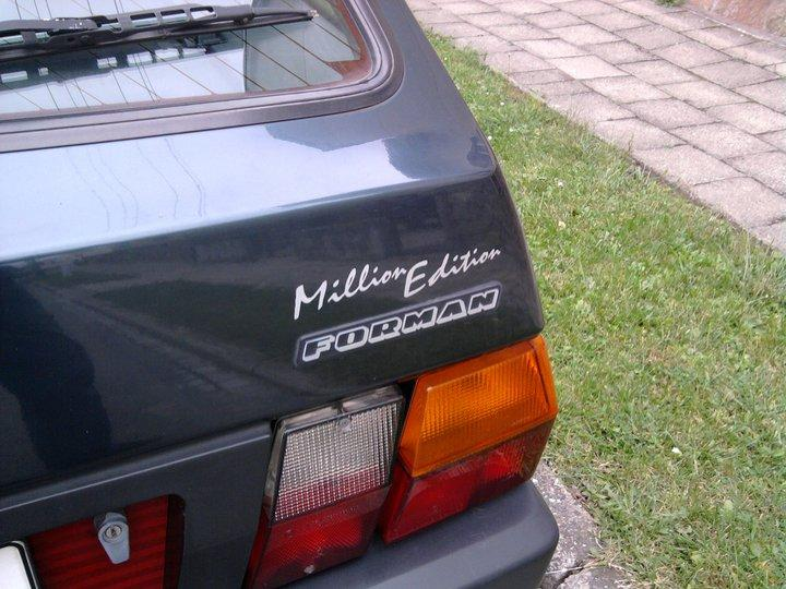 Škoda Forman Million Edition logo